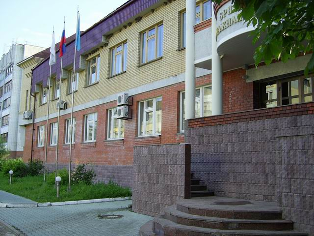 The office building of paper factory in Belye Berega, Bryansk oblast, Russia